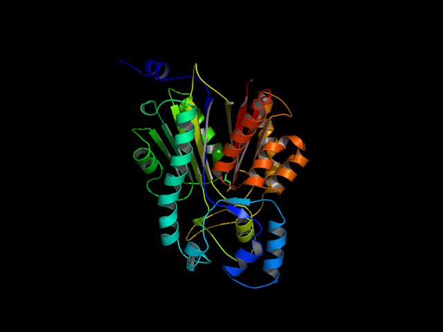 Chalcone Synthase X Ray Image PDG: 1BI5